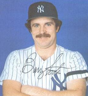 Professional baseball player Barry Foote during the 1981 season as a member of the New York Yankees.